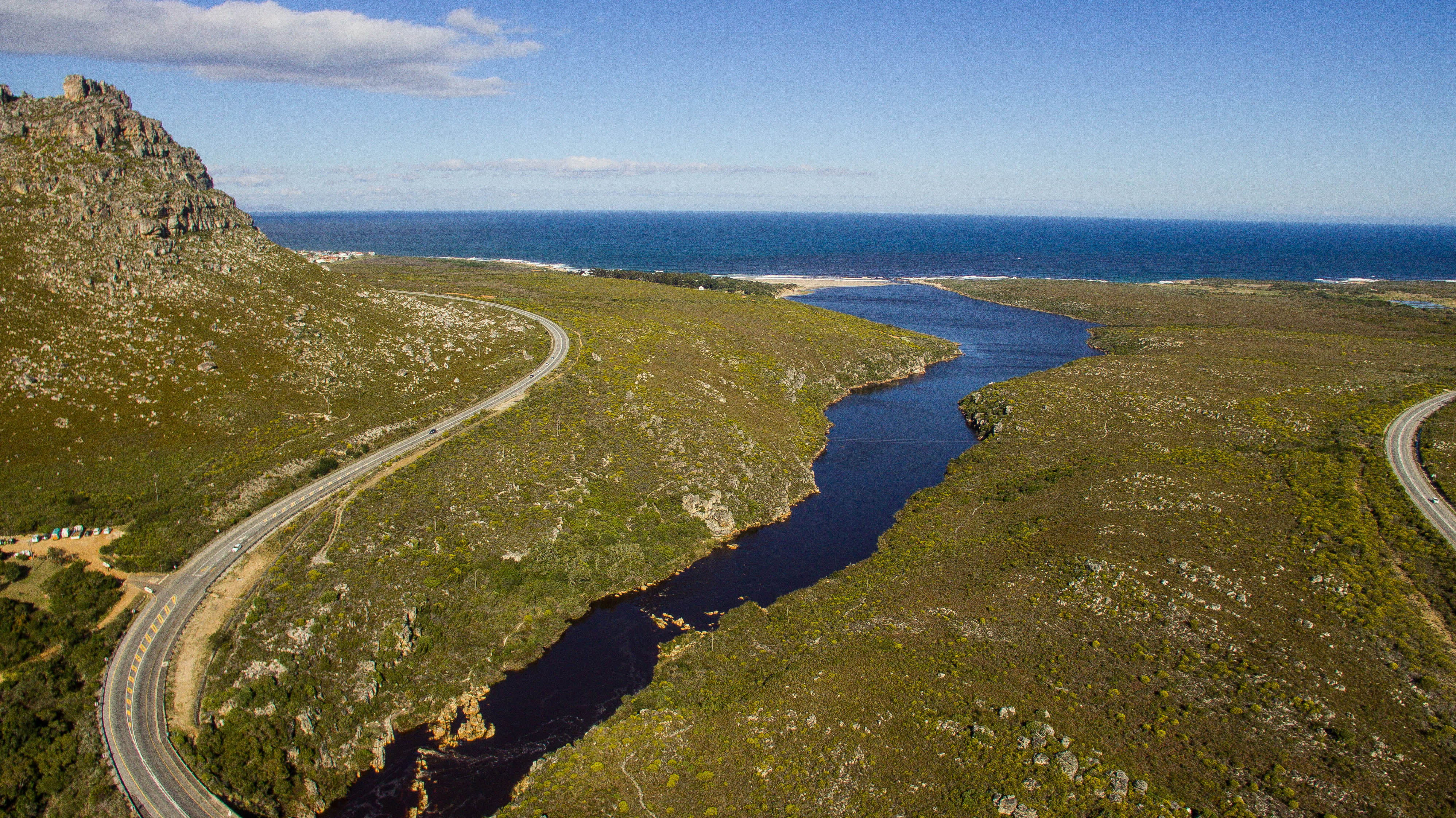 The Palmiet River joins the Indian Ocean to the south of town of Kleinmond on the East Coast of the Western Cape Province of South Africa.